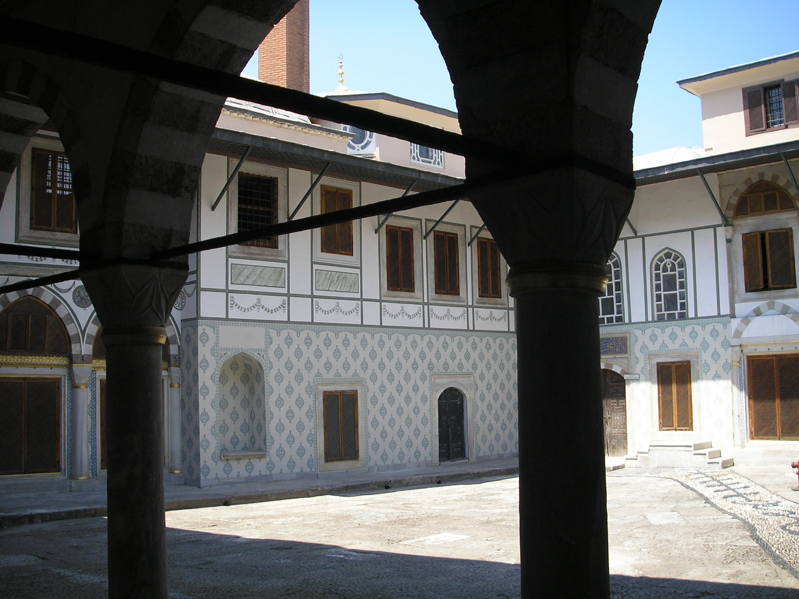 The apartments of the Queen Mother (Valide Sultan) in the Topkapi Palace in Istanbul.